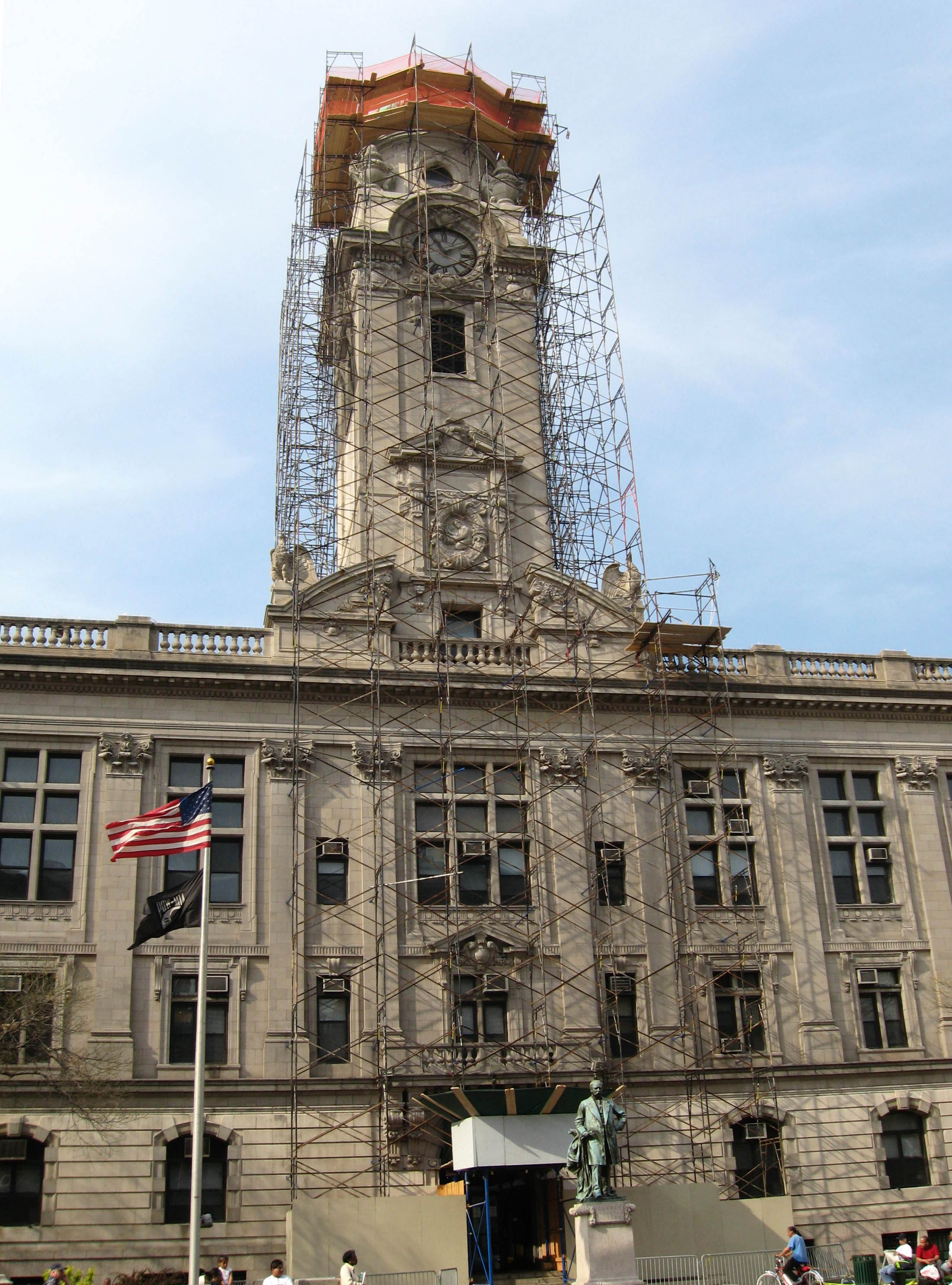 Paterson, New Jersey City Hall, looking north from across Market Street on a sunny afternoon with temporary scaffolding.